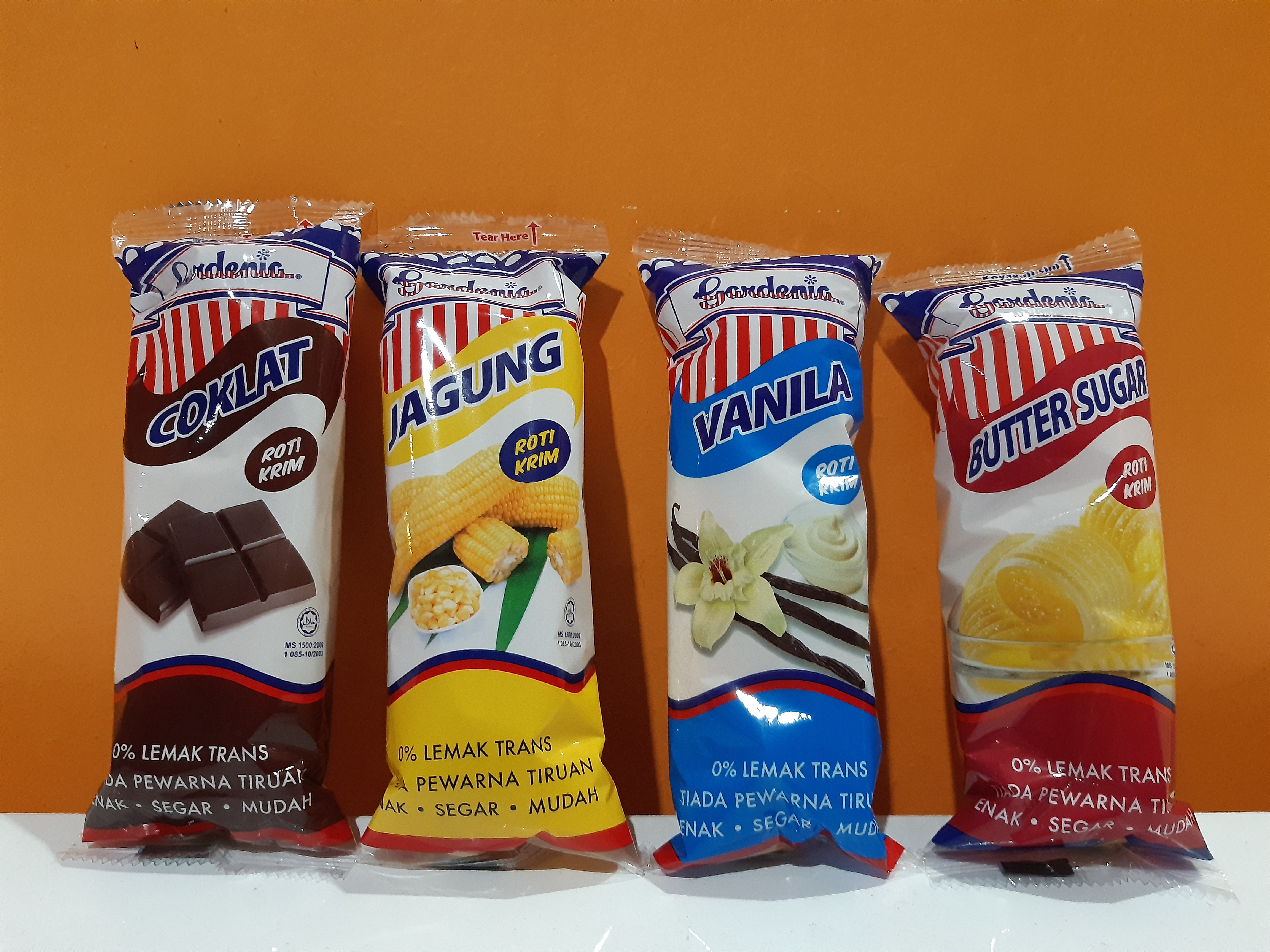 chocolate,vanilla,butterscotch and corn flavoured bread